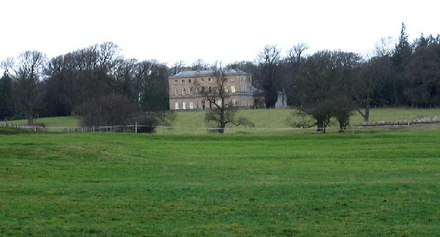 Dissington Hall. Built in 1794 by William Newton for Edward Collingwood, a relative of Lord Collingwood. The trees in the centre mark the course of the river Pont